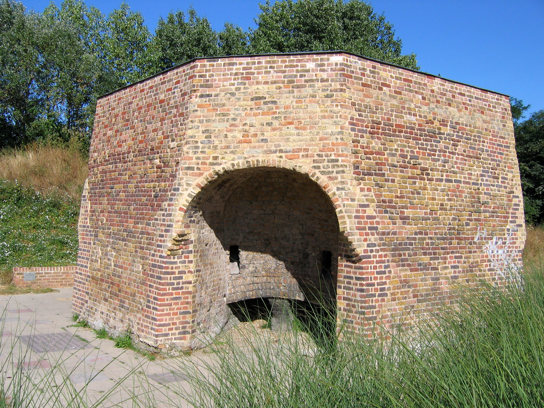 Preserved lime kiln [1], Burgess Park, Southwark, London. Taken by C Ford - July 04.